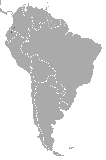 Colombian Weasel (Mustela felipei) range